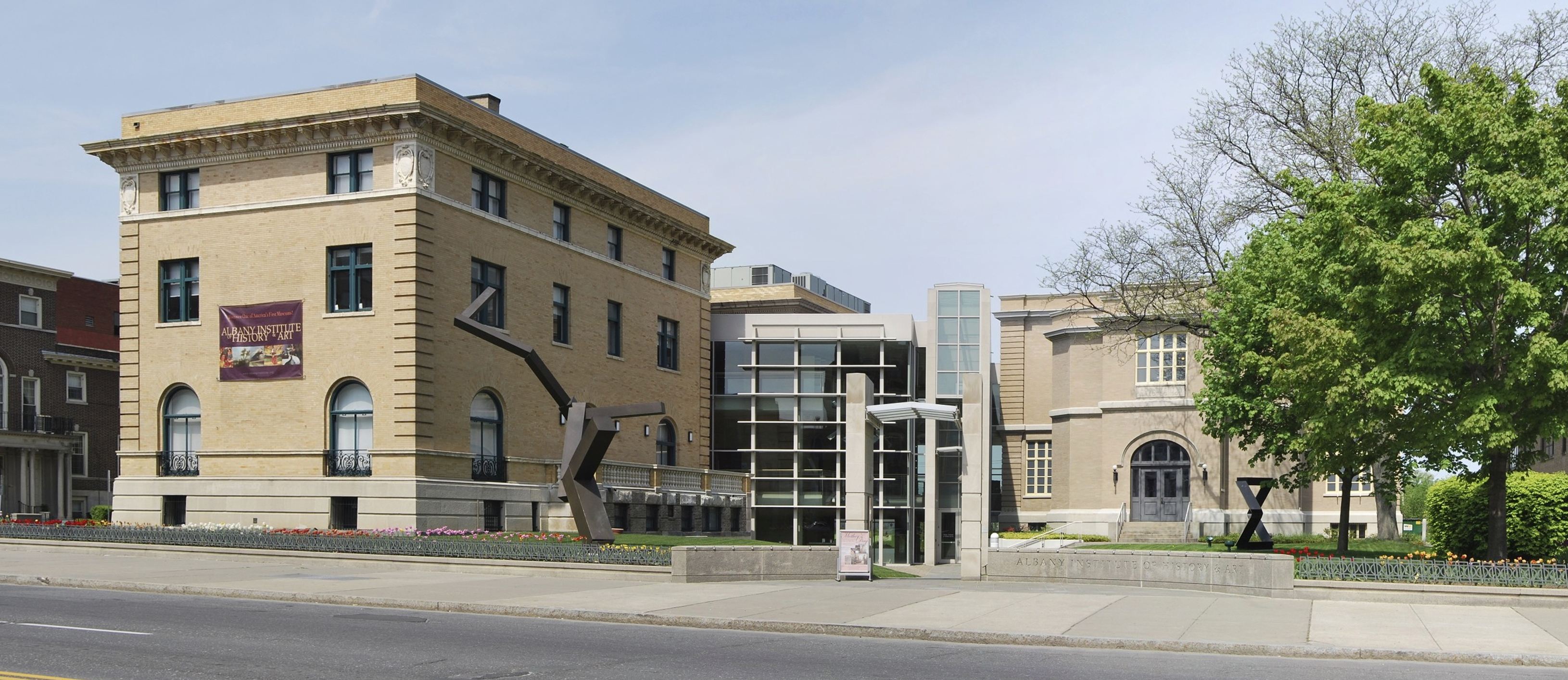 Albany Institute of History and Art on Washington Avenue in Albany, New York, United States